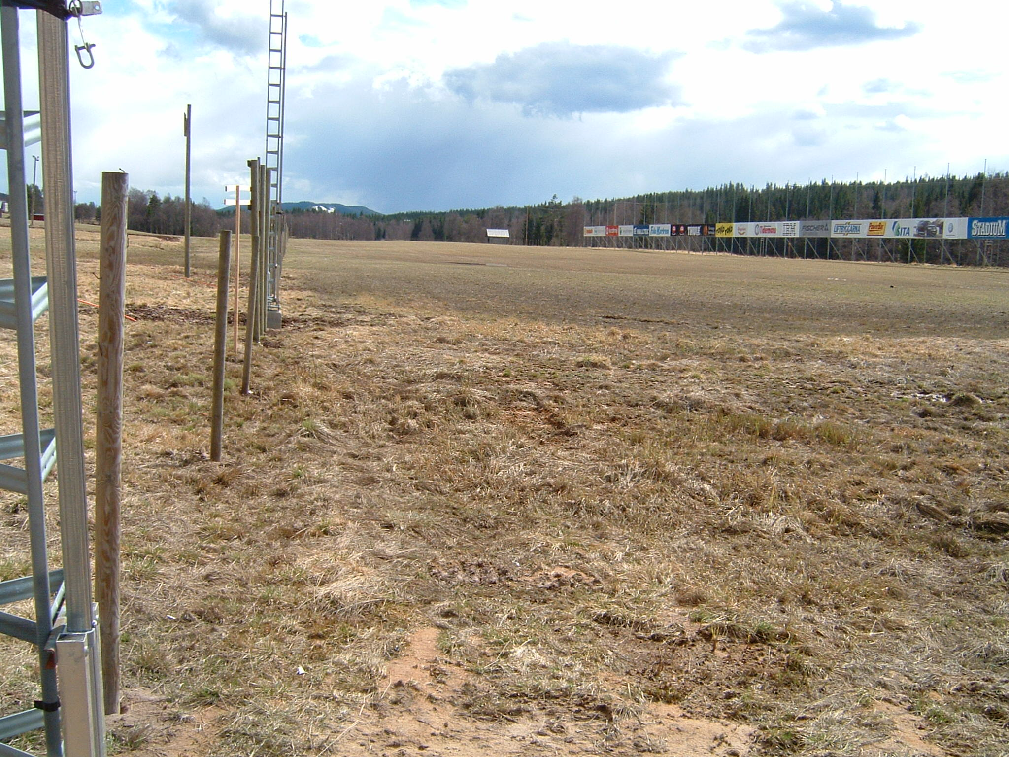 The fold at the start of the Vasaloppspåret nature reserve in Berga by, Malung Municipality (currently Malung-Sälen Municipality), Sweden.